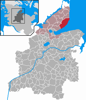 Locator maps of municipalities in Schleswig-Holstein - District Rendsburg-Eckernförde